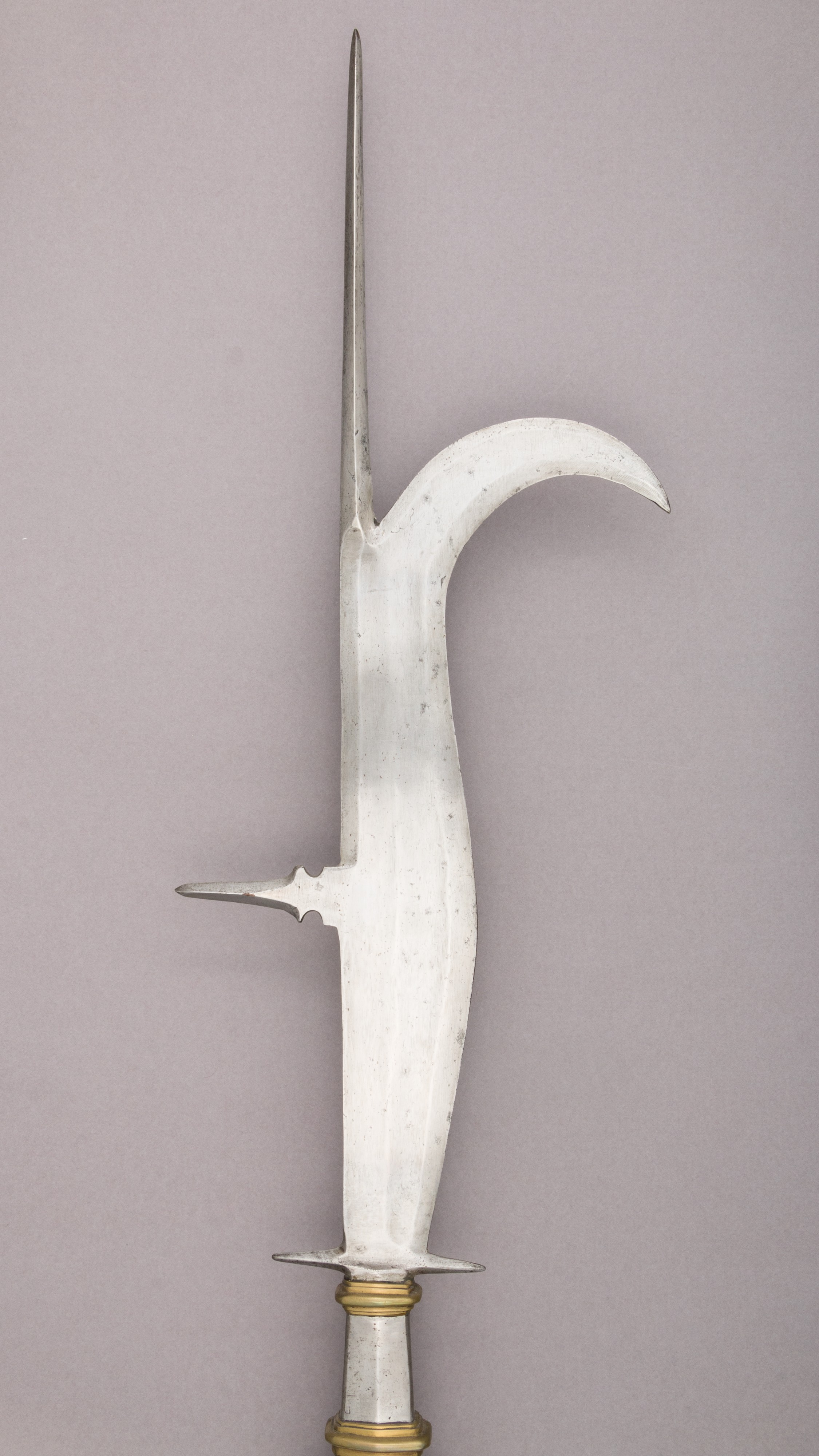 Italian; Guisarme; Shafted Weapons